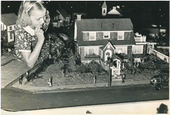 Picture of Mr. Gieringer's granddaughter, sometime in the early 1940's